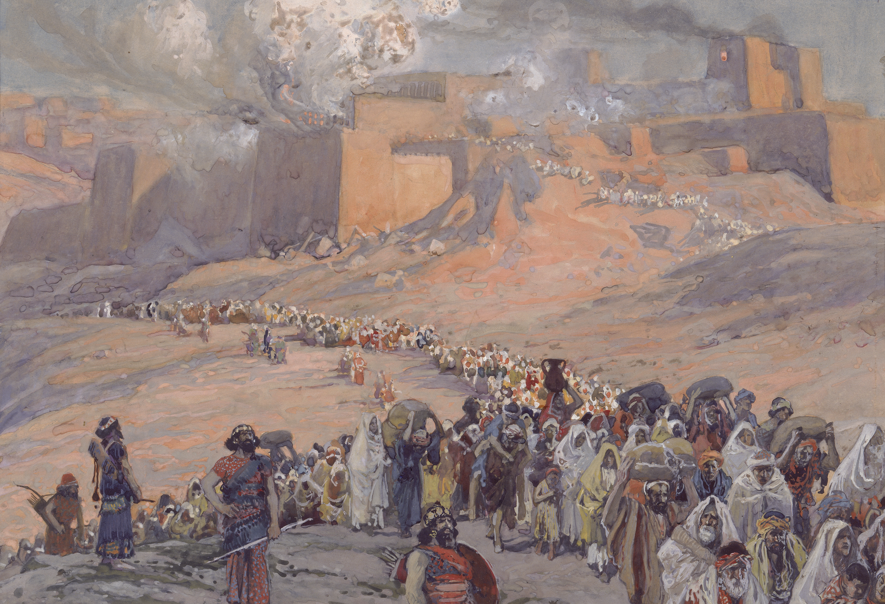 The Flight of the Prisoners, c. 1896-1902 , gouache on board, 8 15/16 x 11 5/8 in. (22.7 x 29.7 cm), Jewish Museum, New York, NY.